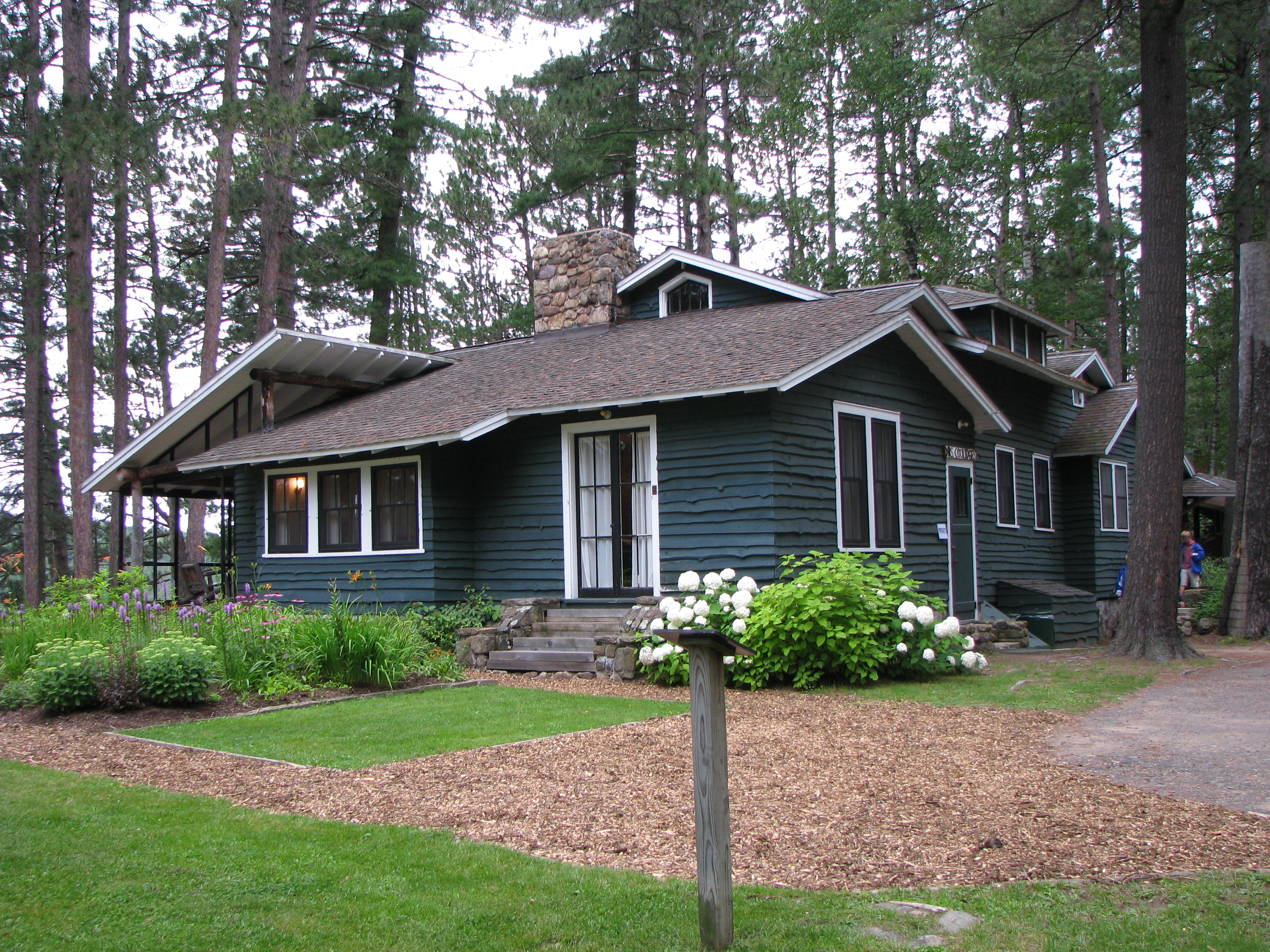 Owner's cottage, White Pine Camp, Paul Smiths, NY. When the camp was used as the Summer Whitehouse by Calvin Coolidge, this cabin was used as the residence cabin of the President and his wife. The end shown was occupied by Mrs. Coolidge.